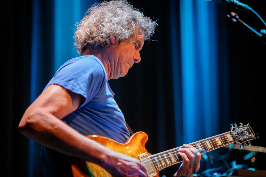 John Marshall with Soft Machine at Cosmopolite. The concert took place on 06. September 2018 in Oslo. Lineup: John Etheridge (guitar) Theo Travis (tenor saxophone and keyboard) Roy Babbington (bass guitar) John Marshall (drums)